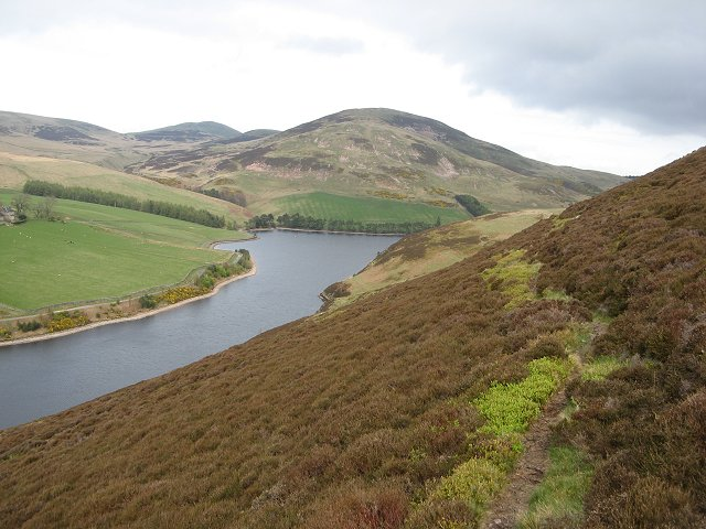 Glencorse Reservoir From a narrow path on the slopes of Turnhouse Hill.